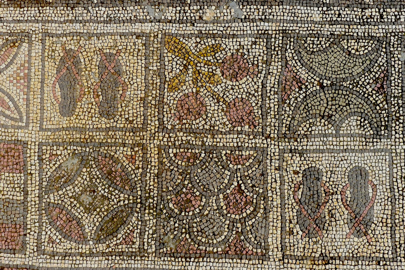 Slipper at a floor mosaic in the Ruin of Ayia Triada, Cyprus.